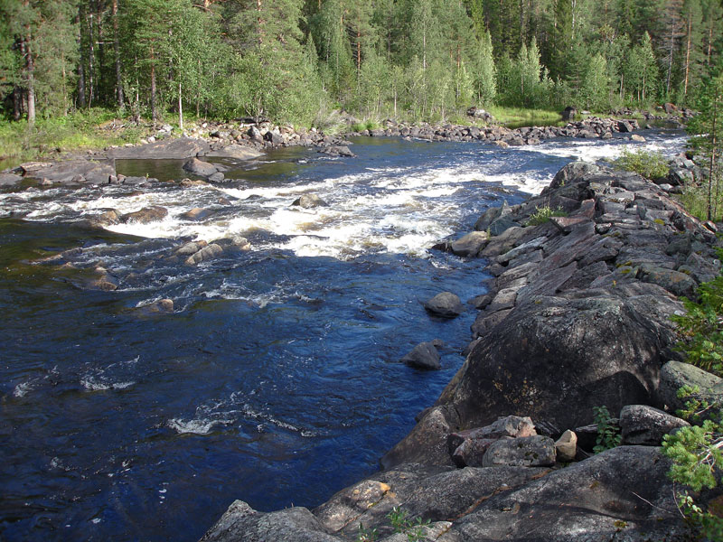 Långselforsen rapids in the lower parts of river Juktån. To the right, a device installed for timber floating. Picture from 2009.